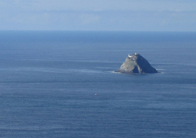 Oileán Baoi (Dursey Island): The Bull The Bull is one of three main islands off the west end of Dursey Island. The other ones are The Cow in V4239 and The Calf in V4437. This one is about 5 kilometres off Dursey Head although this view was taken from near the signal tower on the summit of Dursey. The Bull has a lighthouse built in 1889 to replace a short lived one on The Calf which was destroyed by a storm in 1881. Curiously The Bull is absent from the current Third Edition OSI 1:50,000 scale map. There is an inset showing all of Dursey Island and The Cow and The Calf, and space to extend the inset westwards, but the inset terminates on the 42000 Easting grid line. The grid square has been taken from the old OSI Half Inch to the Mile mapping instead. The lighthouse is at 51 degrees 35.521 minutes latitude North and 10 degrees 18.073 minutes longitude West if anyone wants to do a conversion into the Irish Grid! ( Information from the Commissioners of Irish Lights website here )